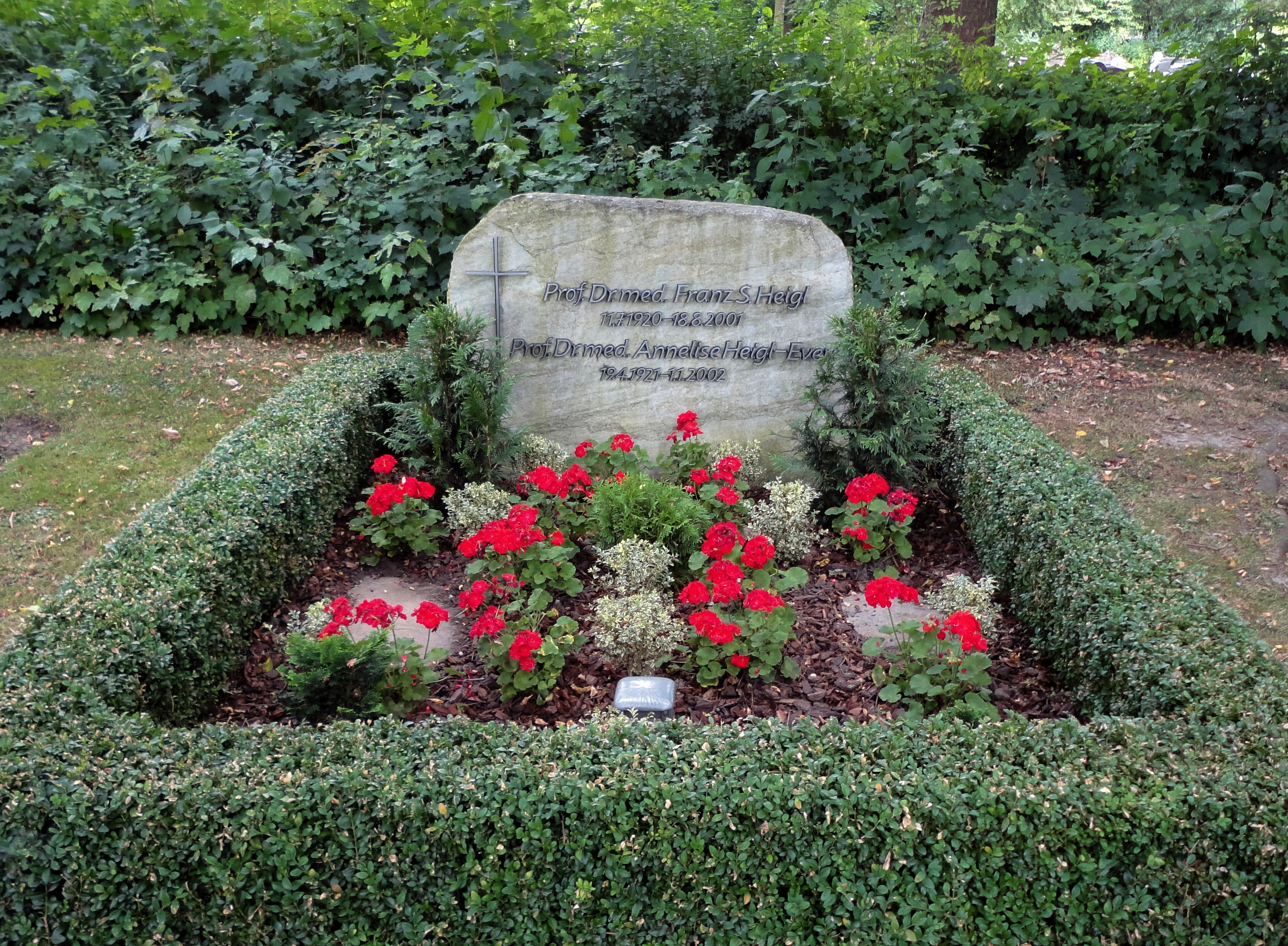 Parkfriedhof Junkerberg, grave (dedicated by the City of Göttingen) of Franz Heigl